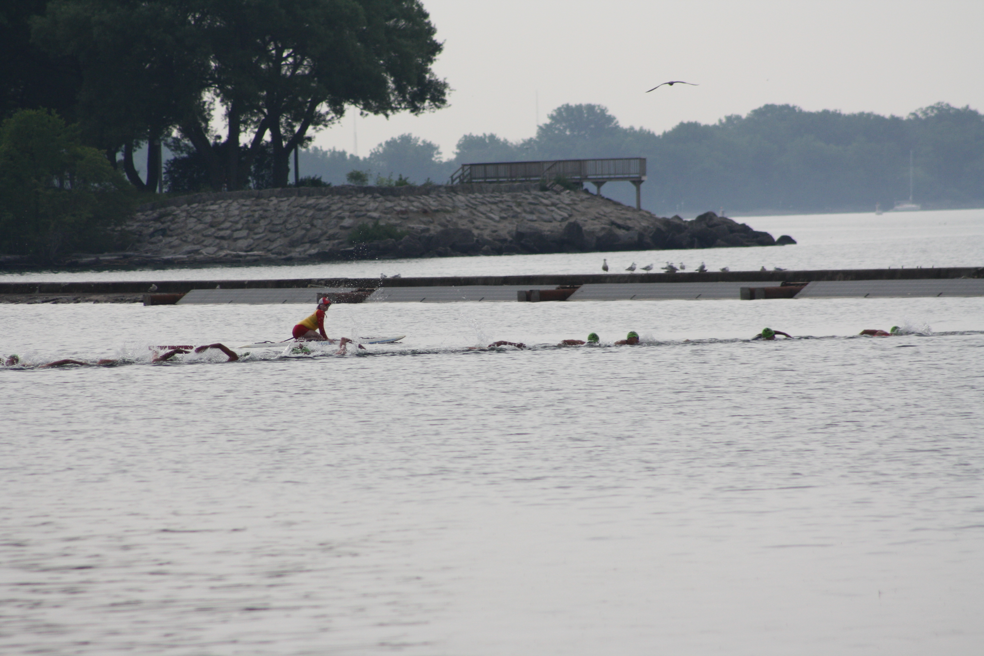 Swim portion of the Pan Am Games triathlon in Toronto.